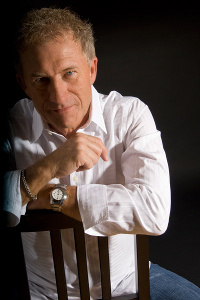 Dave Rutherford